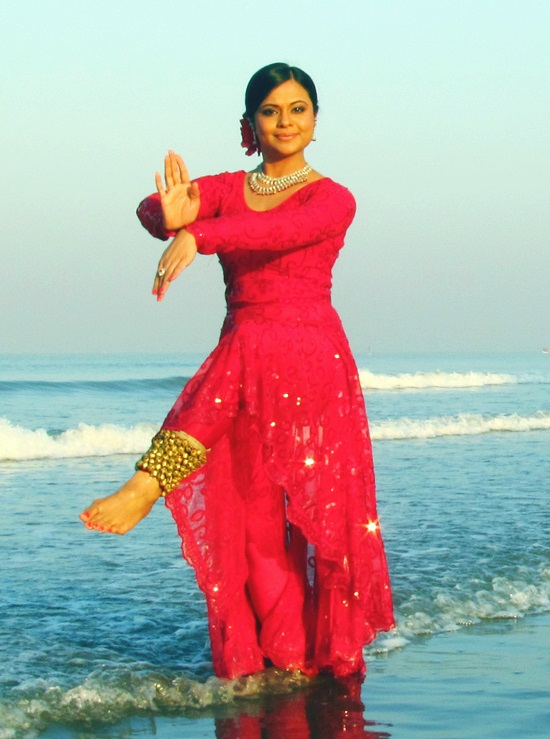 Photo of Aditi